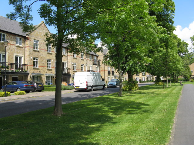 Coldstream Road, The Village, Caterham The Village is a large and very high-class development on the site of the old Guards barracks in Caterham. Accommodation of all types is provided, from flatlets to large family homes.